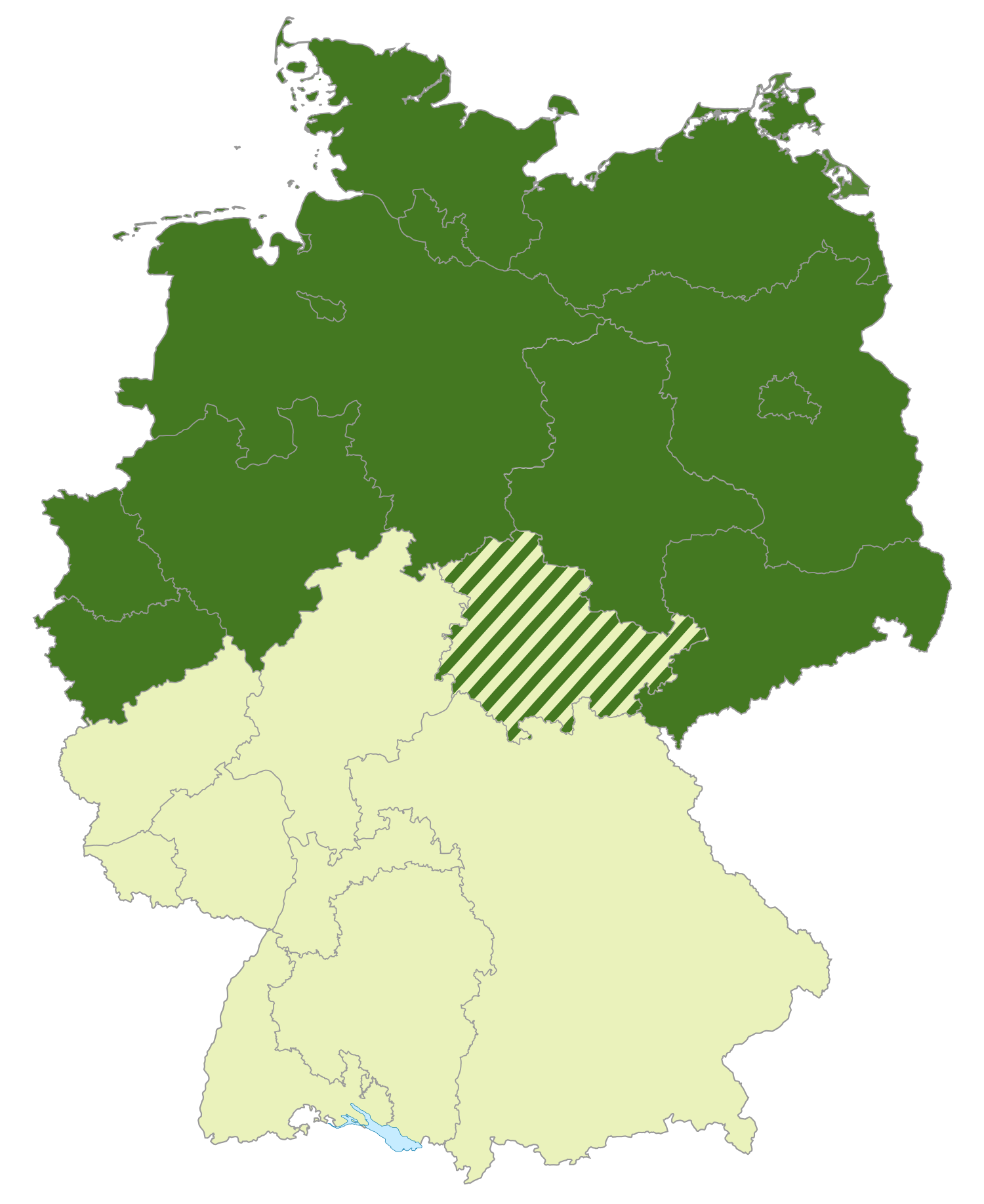 Germany's Regionalliga Nord (2000-2008) including football clubs from the states of Niedersachsen, Hamburg, Bremen, Schleswig-Holstein, Nordrhein-Westfalen, Mecklenburg-Vorpommern, Sachsen-Anhalt, Berlin, Brandenburg and Sachsen.